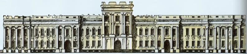 Drawings facade of the building of the Second Little Russia Collegium late 18th century disassembled in 1831-1835 years.